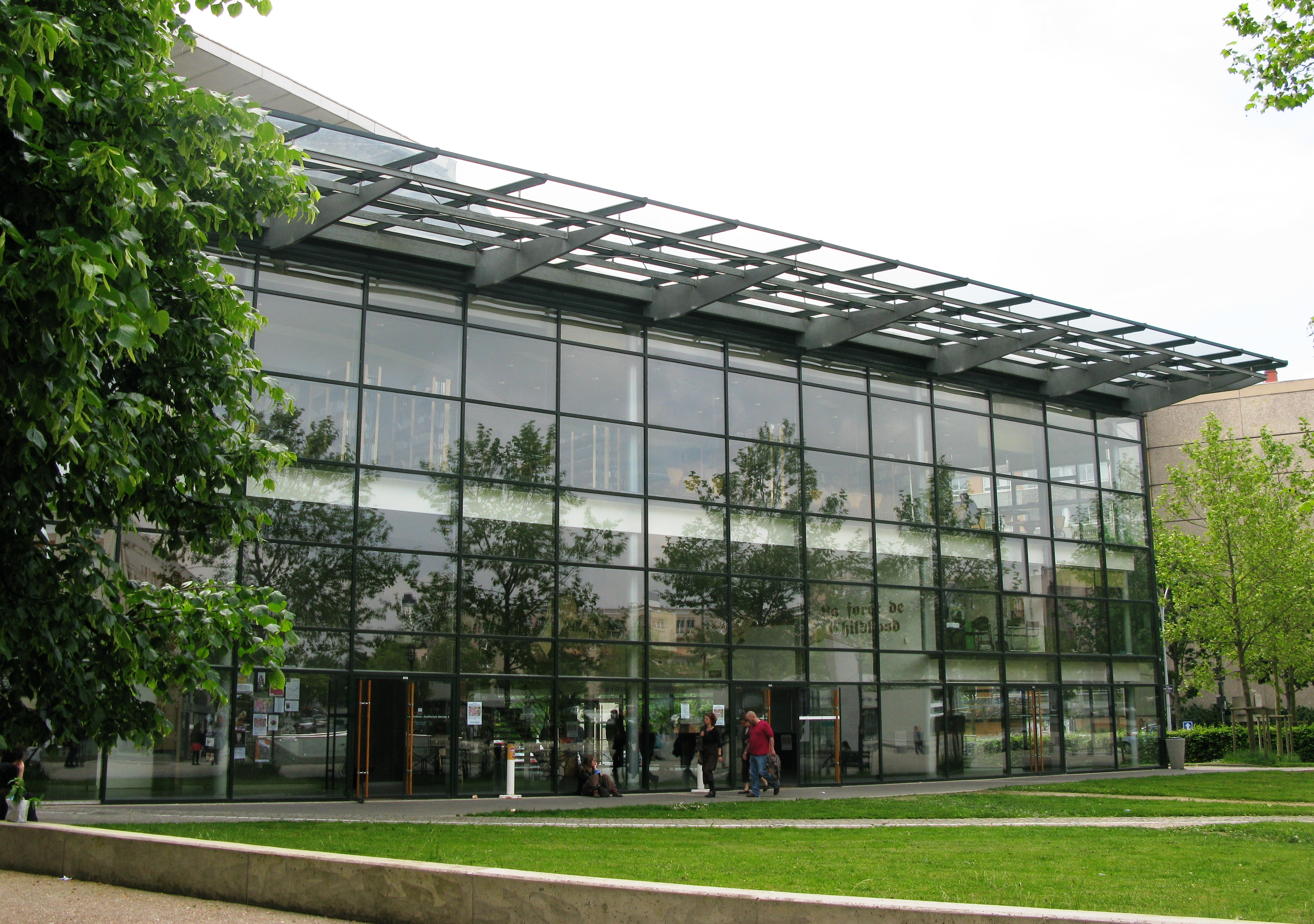 Building "Le Tambour" ("The Drum") in the University of Rennes 2' campus in Rennes, France. It houses some administration offices, as well as a 200 places auditorium.